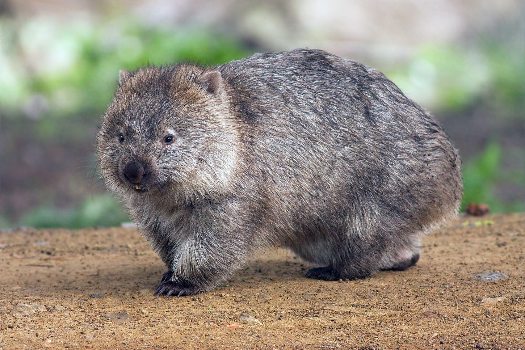 Common Wombat (Vombatus ursinus tasmaniensis) on Maria Island, Tasmania, Australia. The entire island is a national park, Maria Island National Park. The adult is just under a metre in length on average.